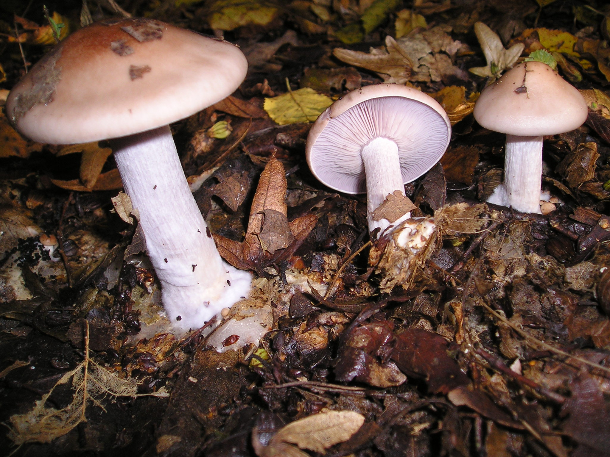 Lepista glaucocana or Lepista nuda in a French wood.